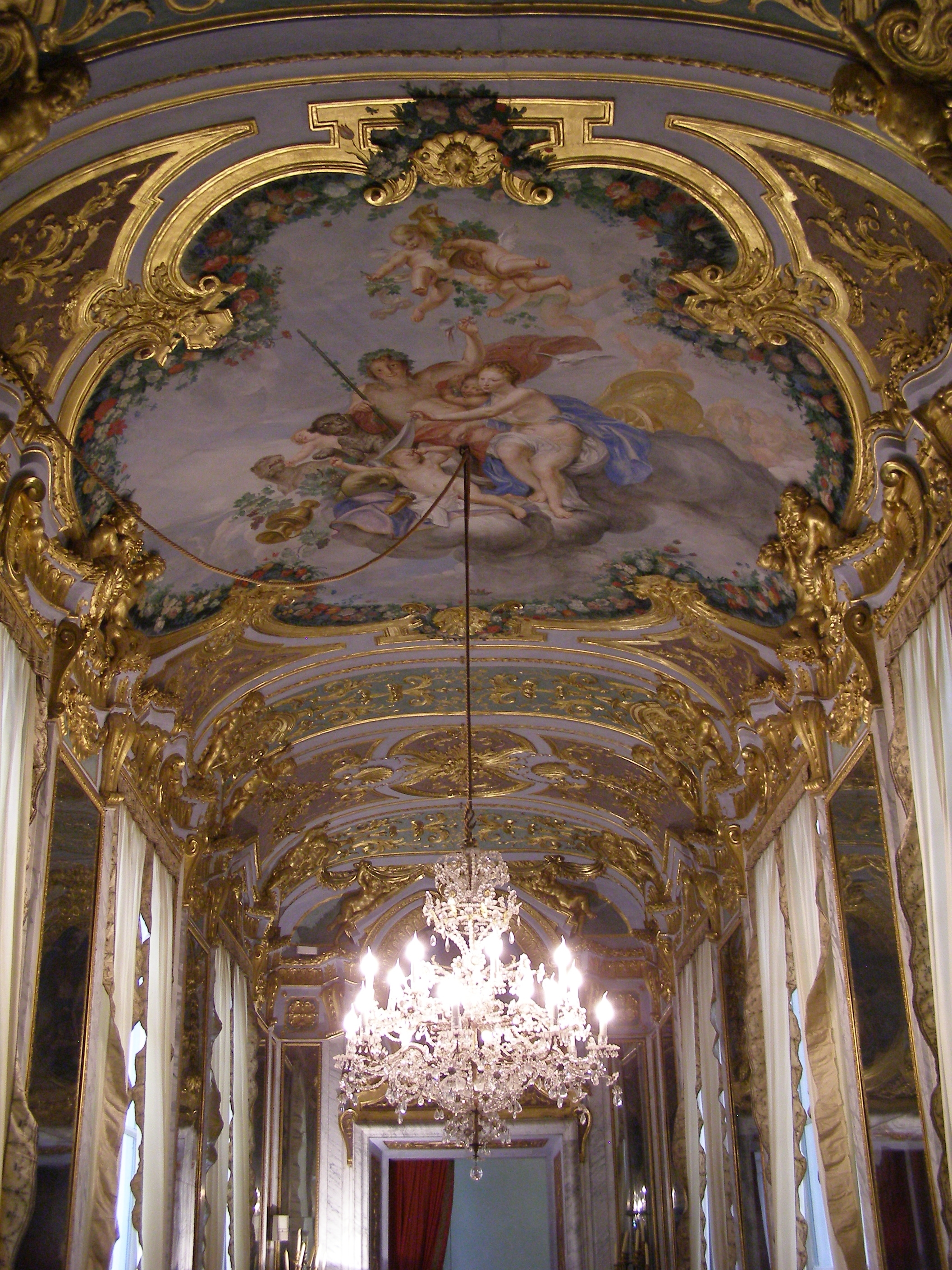 Genova - Palazzo Spinola in Pellicceria - Hall of Mirrors